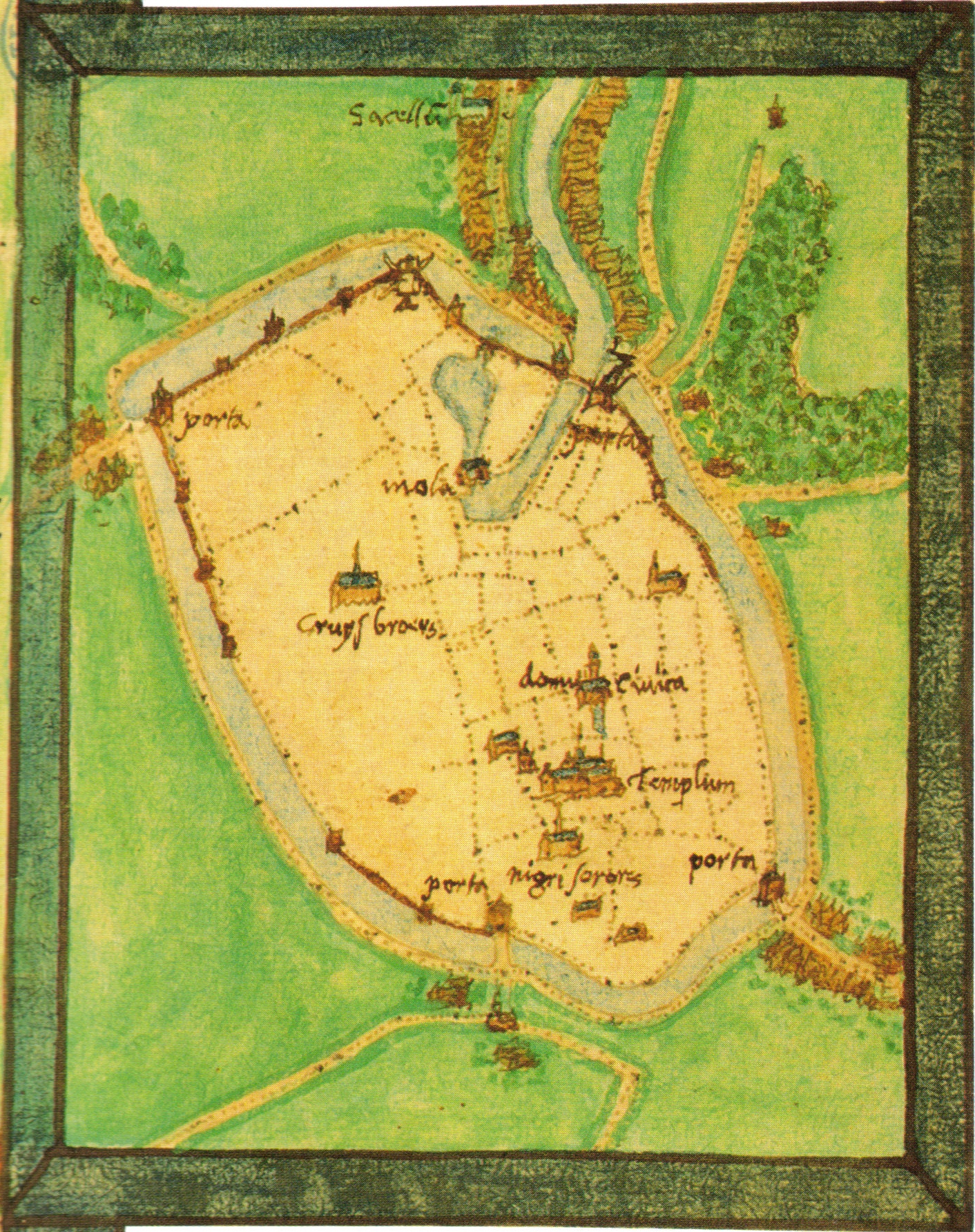 City of Goes, Zeeland, The Netherlands